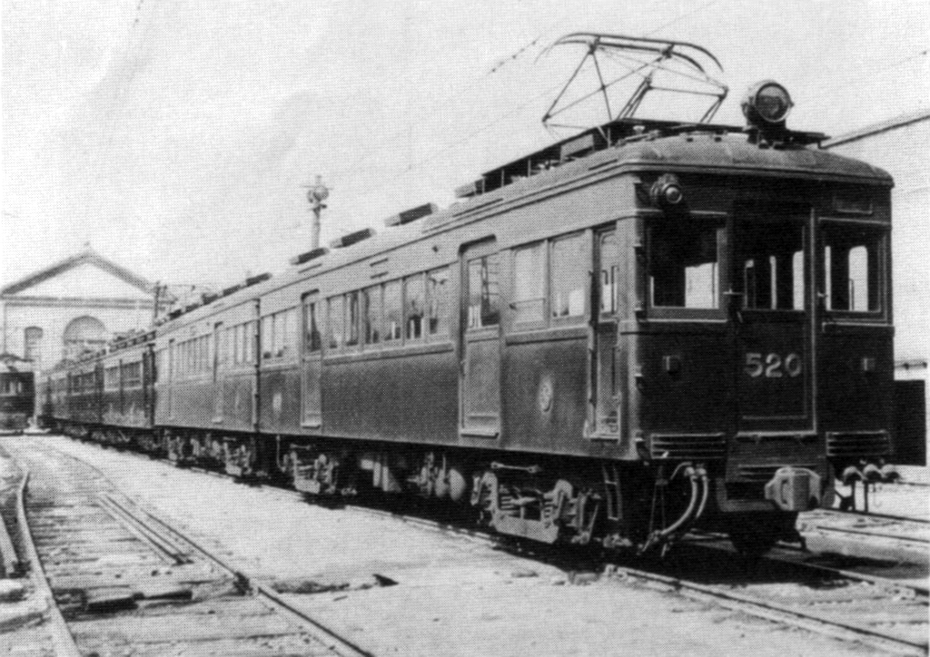 Hankyu #520.